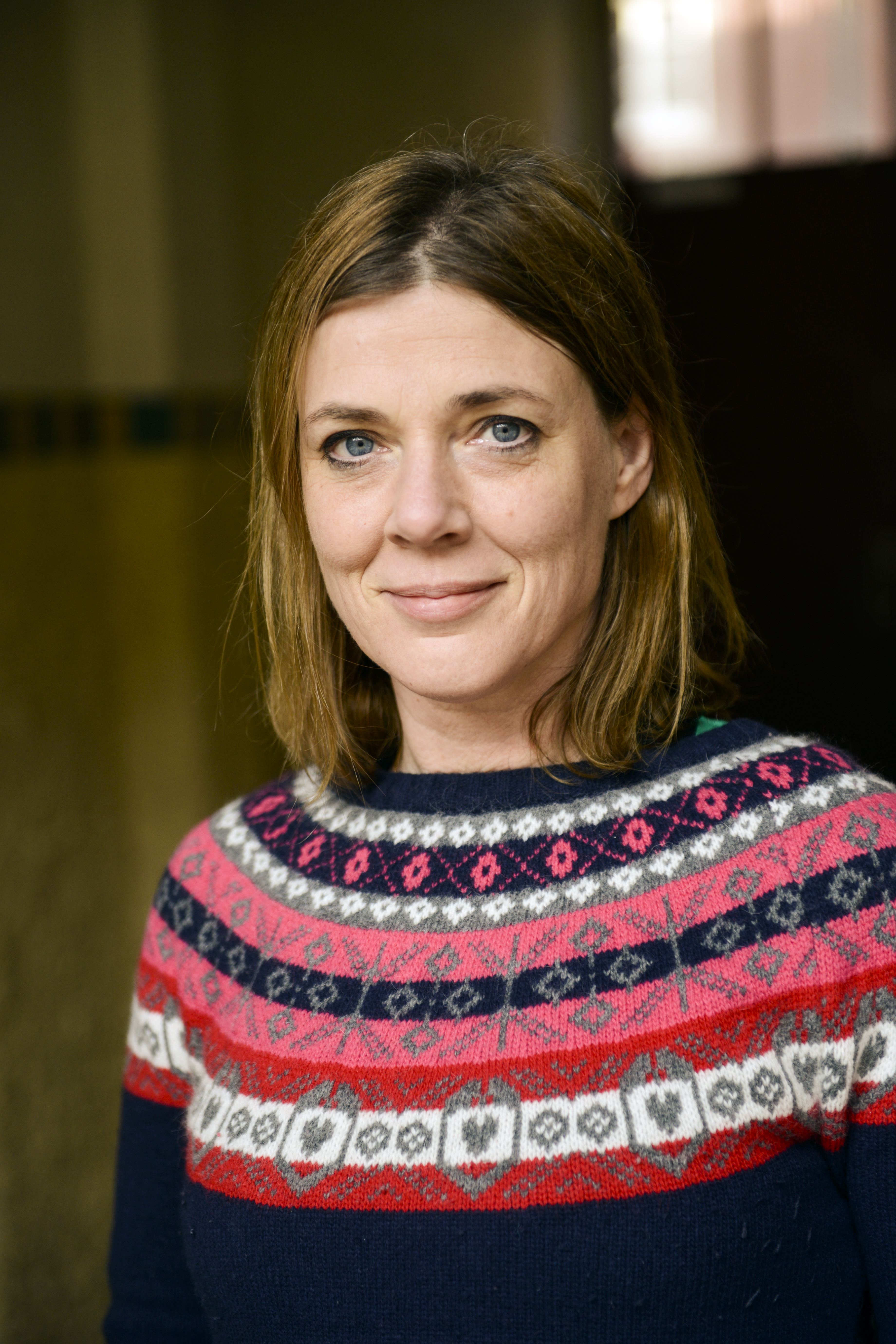 Portrait of Swedish author Ann-Marie Ljungberg, photographer: Charlotta Ljungberg